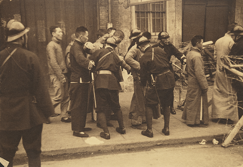 Title: [Chinese Civilians with Japanese Soldiers at Checkpoint] Creator: Sassoon, Elias Victor (1881-1961) Date: 1937 Part Of: Series: and Second Sino-Japanese War, 1937-1939, album/mode/exact Place: Shanghai, Shanghai, China Physical Description: 1 photograph album cover: part of 1 volume (24 gelatin silver prints); 29 x 38 cm File: ag2011_0005x_2_5_3_29_opt.jpg Rights: Please cite DeGolyer Library, Southern Methodist University when using this file. A high-resolution version of this file may be obtained for a fee. For details see the web page. For other information, . For more information and to view the image in high resolution, View the